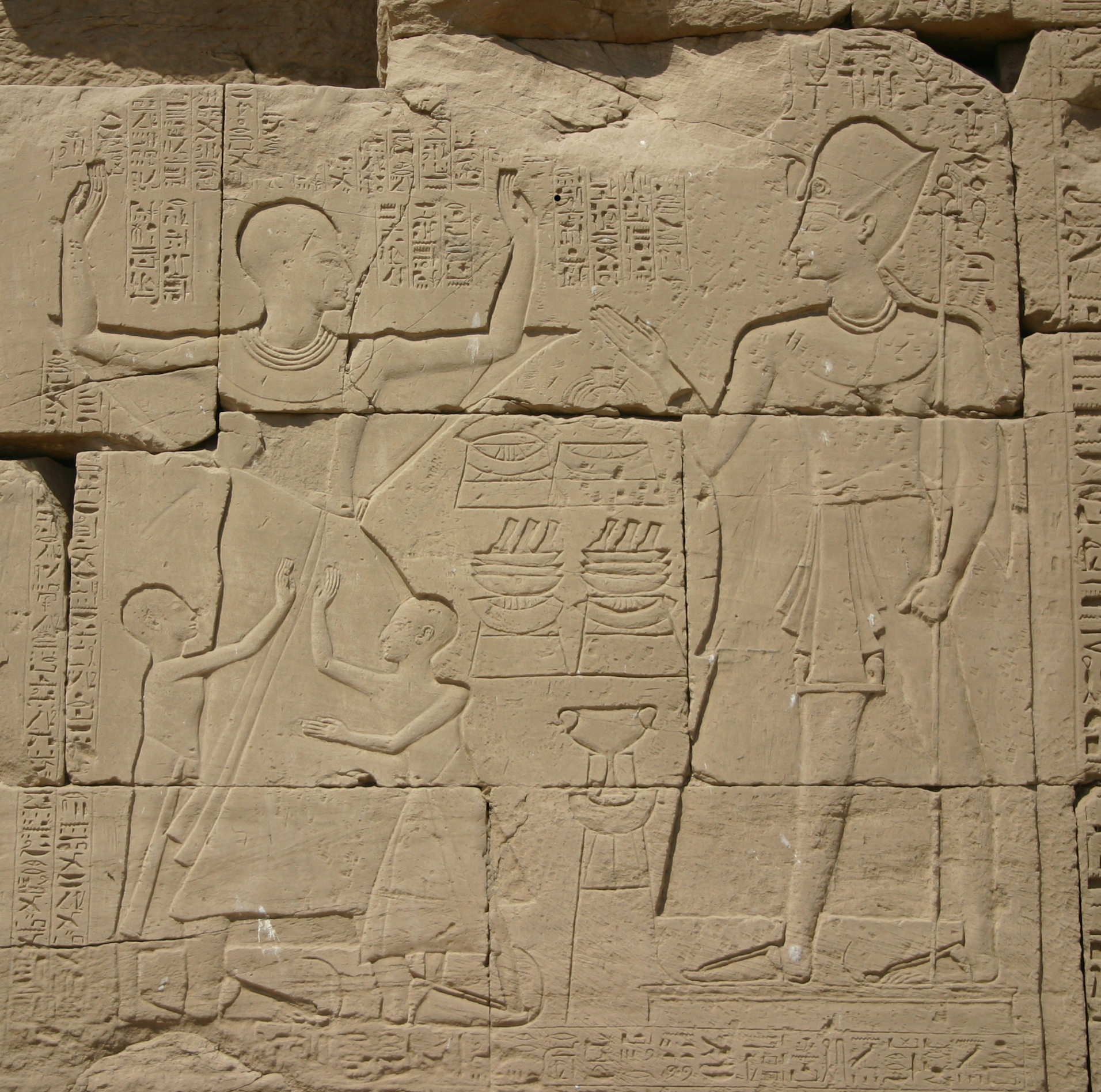 The High Priest of Amun Amunhotep and pharaoh Ramesses IX at Karnak.